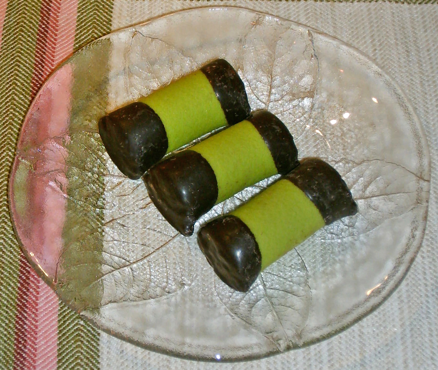 Dammsugare